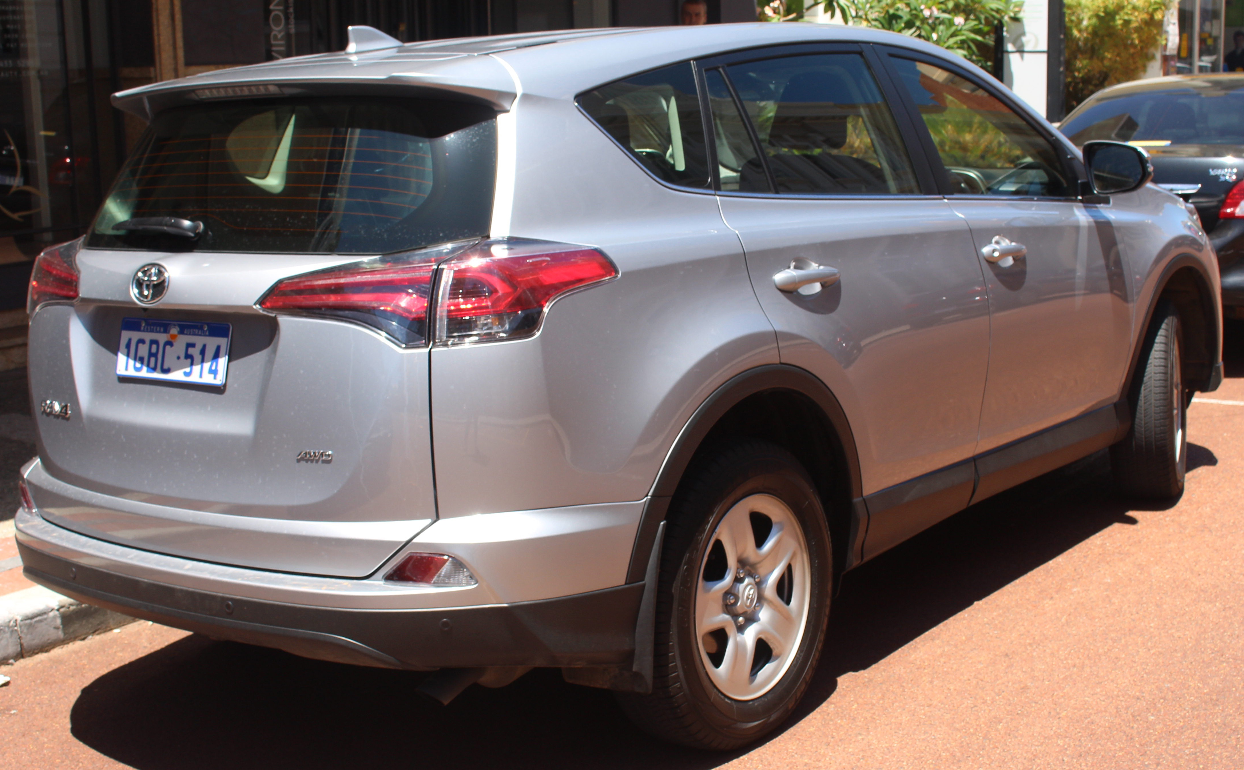 2016 Toyota RAV4 (ASA44R MY16) GX wagon. Photographed in Fremantle, Western Australia, Australia.